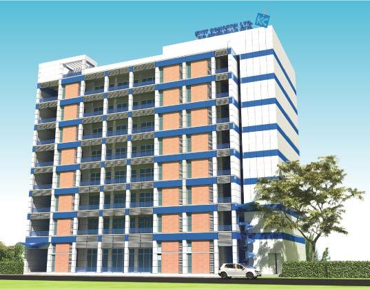 KCL Building